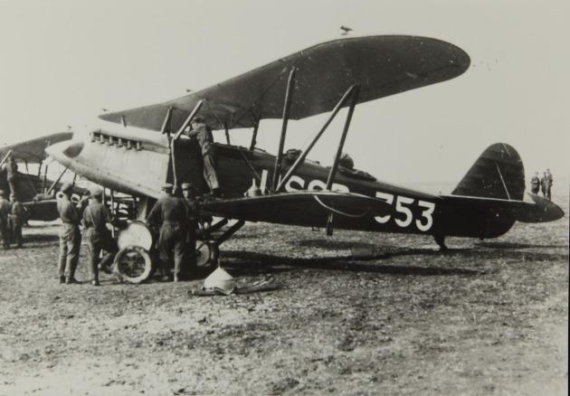 PictionID:6508772 - Catalog:01_00086904 - Title:Polikarpov, R-5 - Filename:01_00086904.TIF - Image from the Charles Daniels Photo Collection album "Seversky, Republic and P-47"----PLEASE TAG this image with any information you know about it, so that we can permanently store this data with the original image file in our Digital Asset Management System.----SOURCE INSTITUTION: San Diego Air and Space Museum Archive